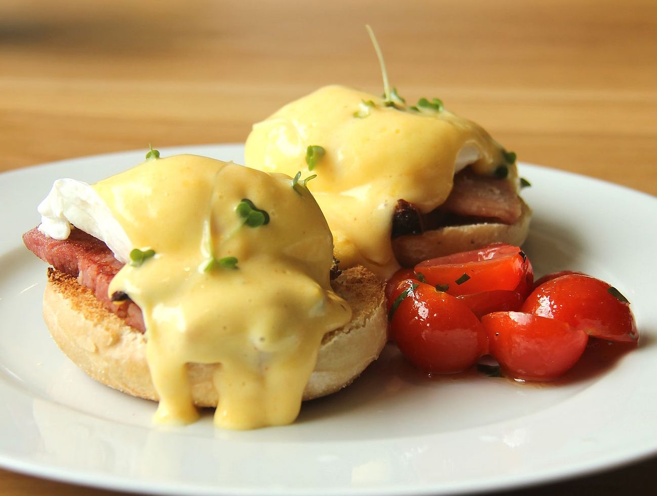 Cropped version of Eggs Benedict